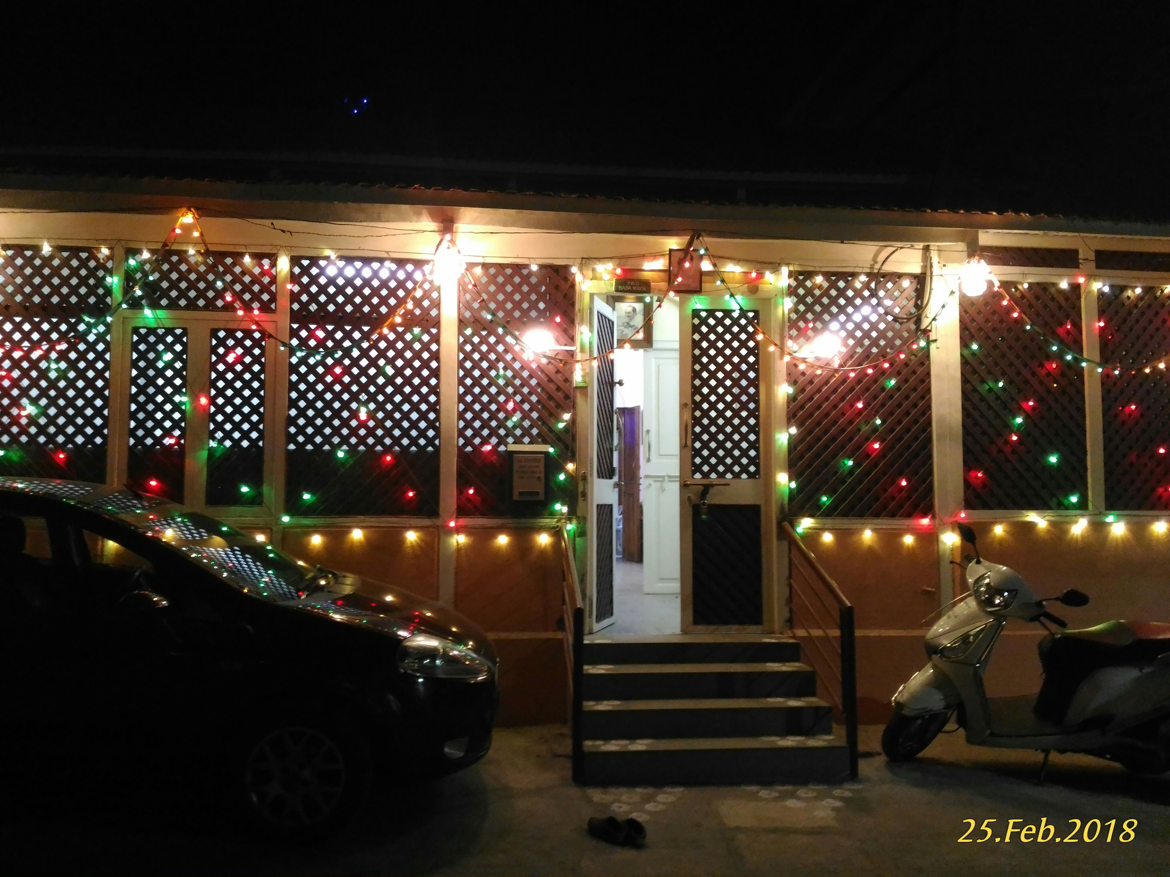 Residence of Meher Baba